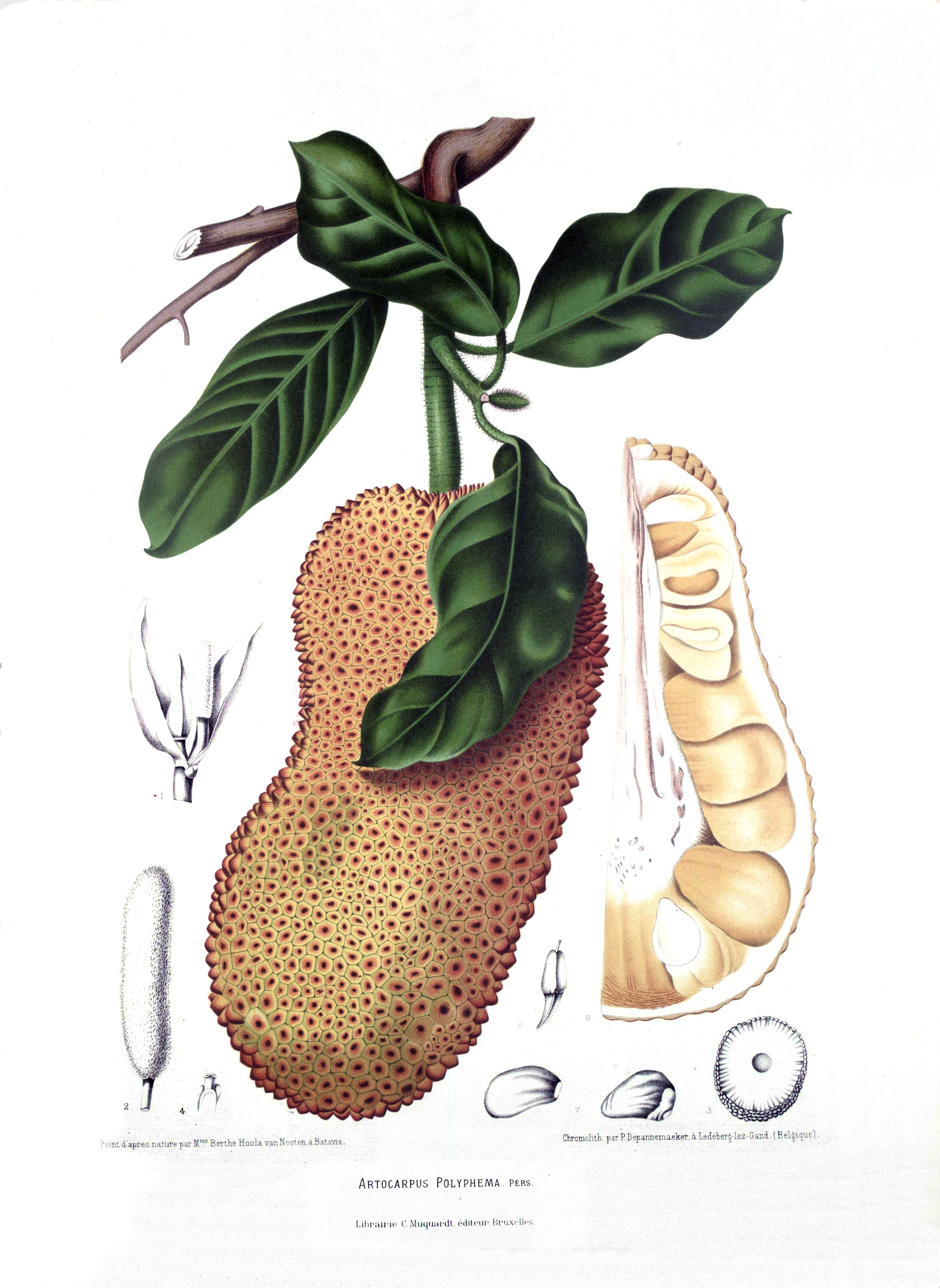 Artocarpus polyphema Pers. = Artocarpus integer (Thunb.) Merr., (Chempedak) from "Fleurs, Fruits et Feuillages Choisis de l'Ile de Java" [Selected Flowers, Fruit and Foliage from the Island of Java]